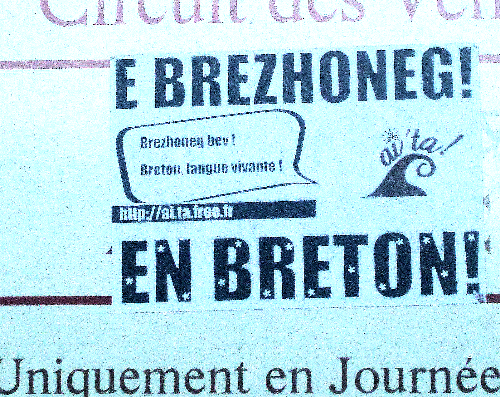 A sticker on a monolingual French signpost demanding that the Bretton language be used. Morlaix 2013.